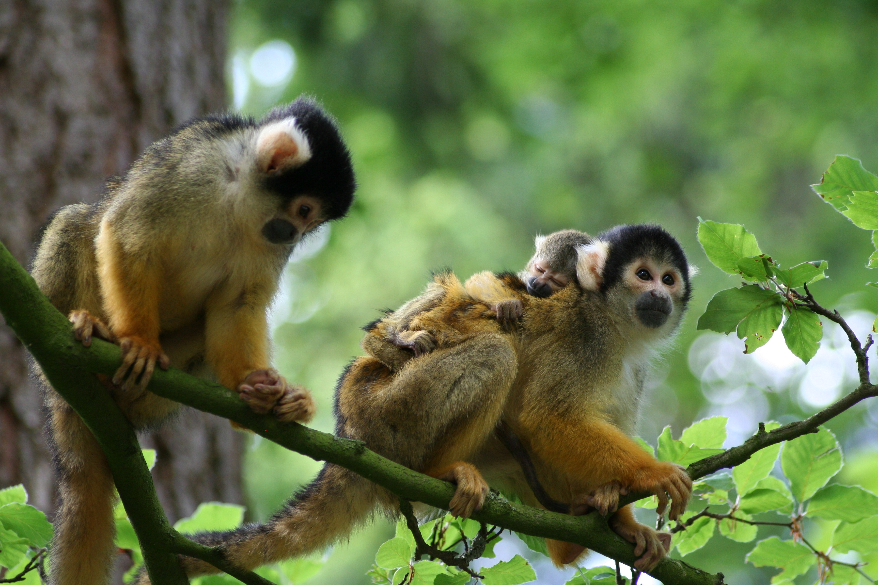 Bolivian Squirrel Monkey (Saimiri boliviensis) family. Notice how tight the grip of the baby is even at this young and tender age of a couple of weeks old. Mum was literally flying through the trees, with Dad, yet baby, despite being asleep, still held on tightly. Taken at Apenheul, Apeldoorn, Netherlands